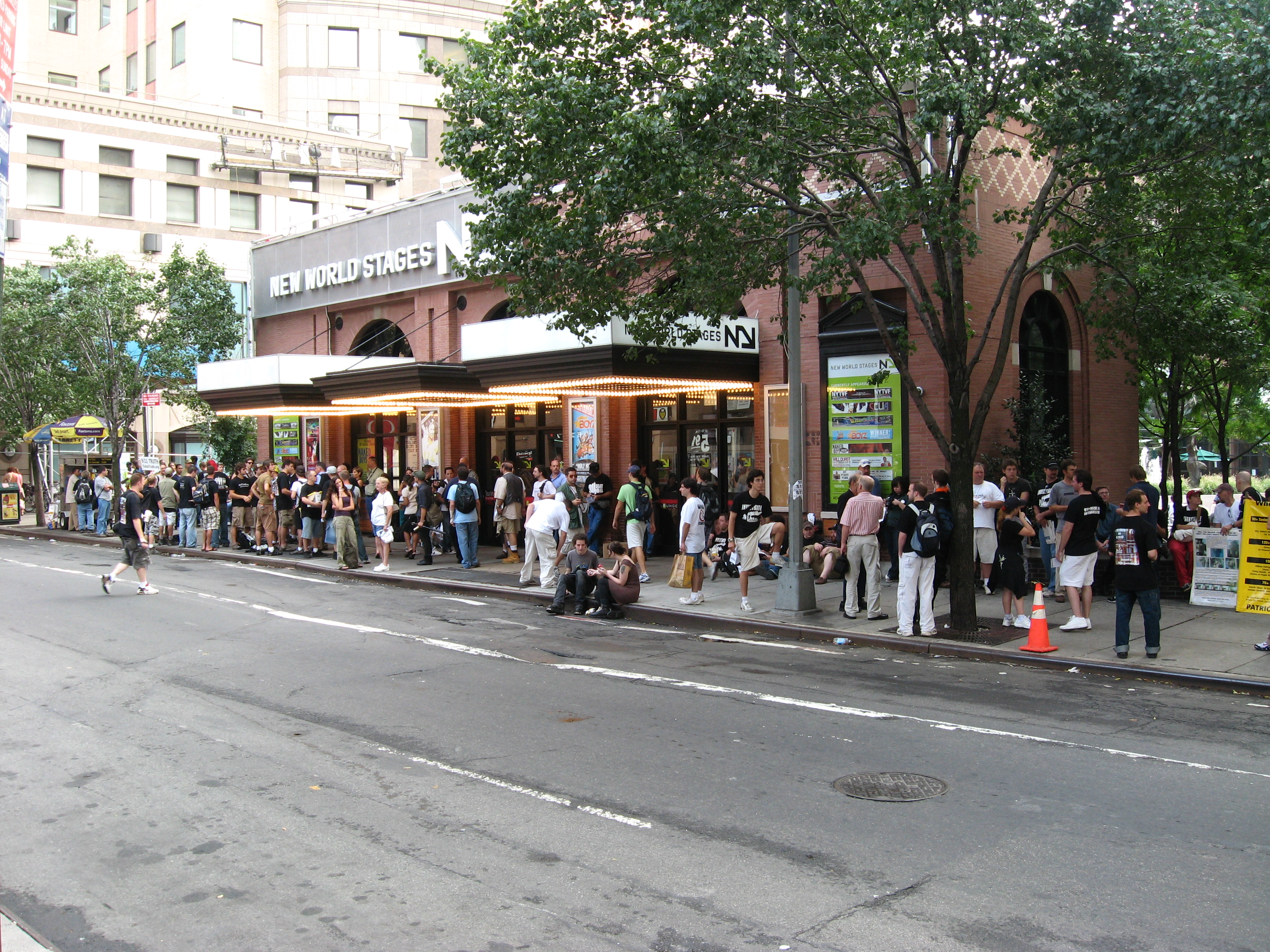 New World Stages